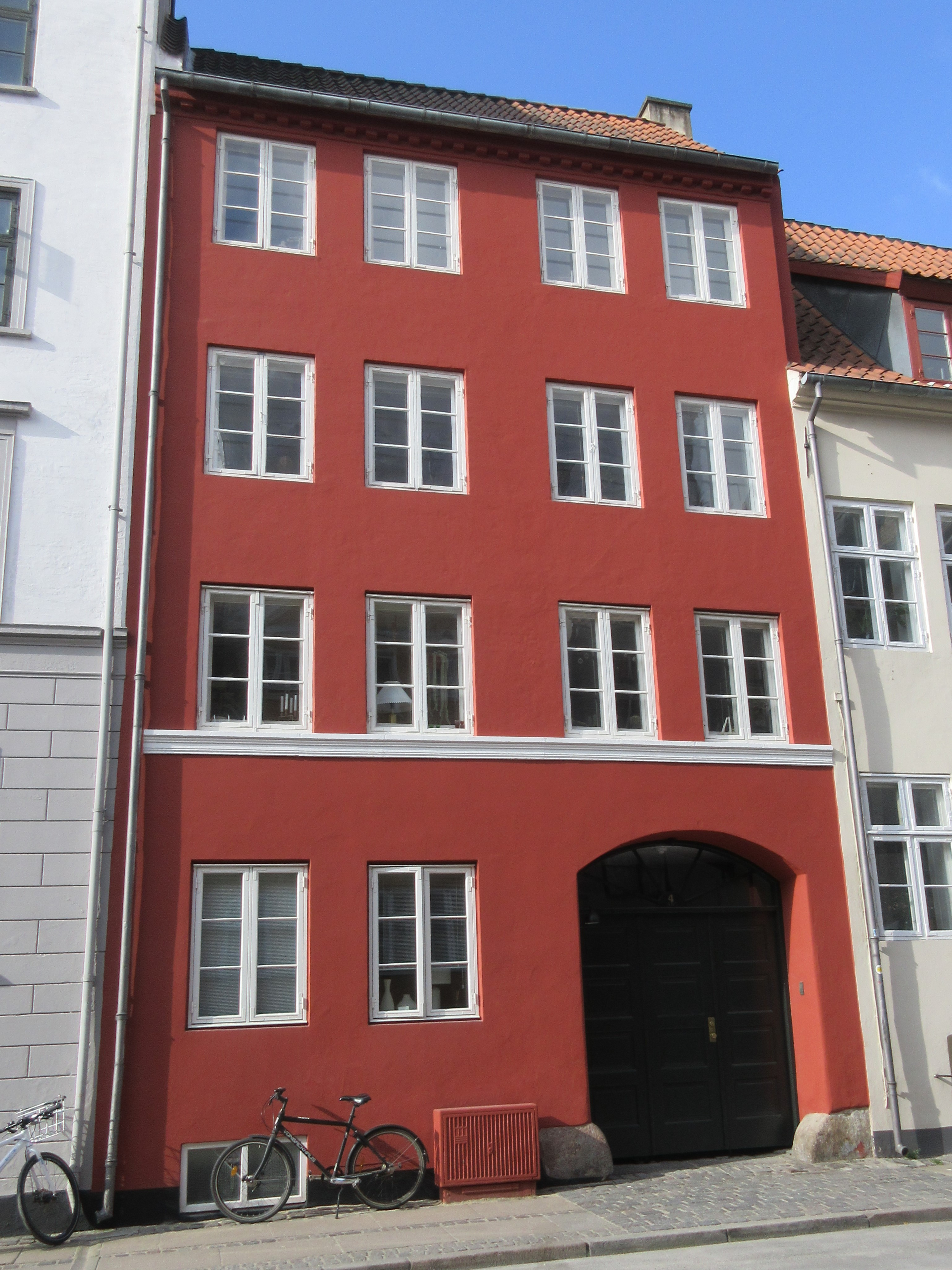 Sankt Annæ Gade 4 in Copenhagen